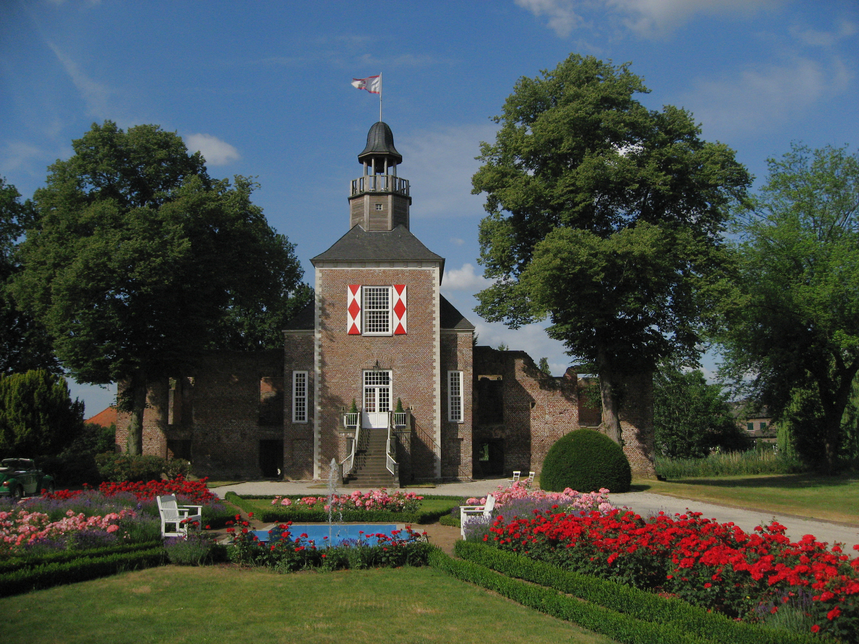 Castleruin after restauration